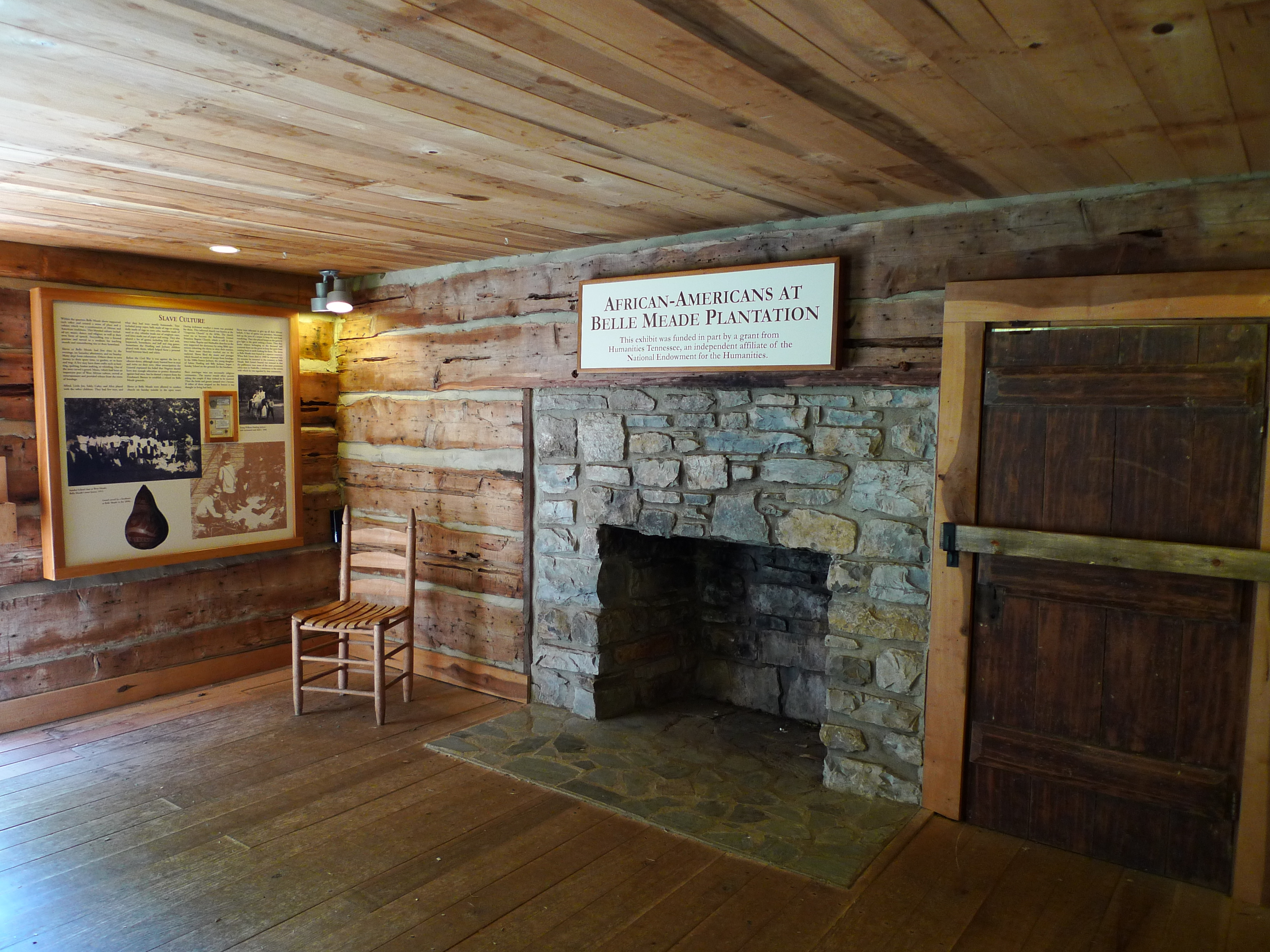 Interior of the reconstructed slave quarters at Belle Meade Plantation in Tennessee.